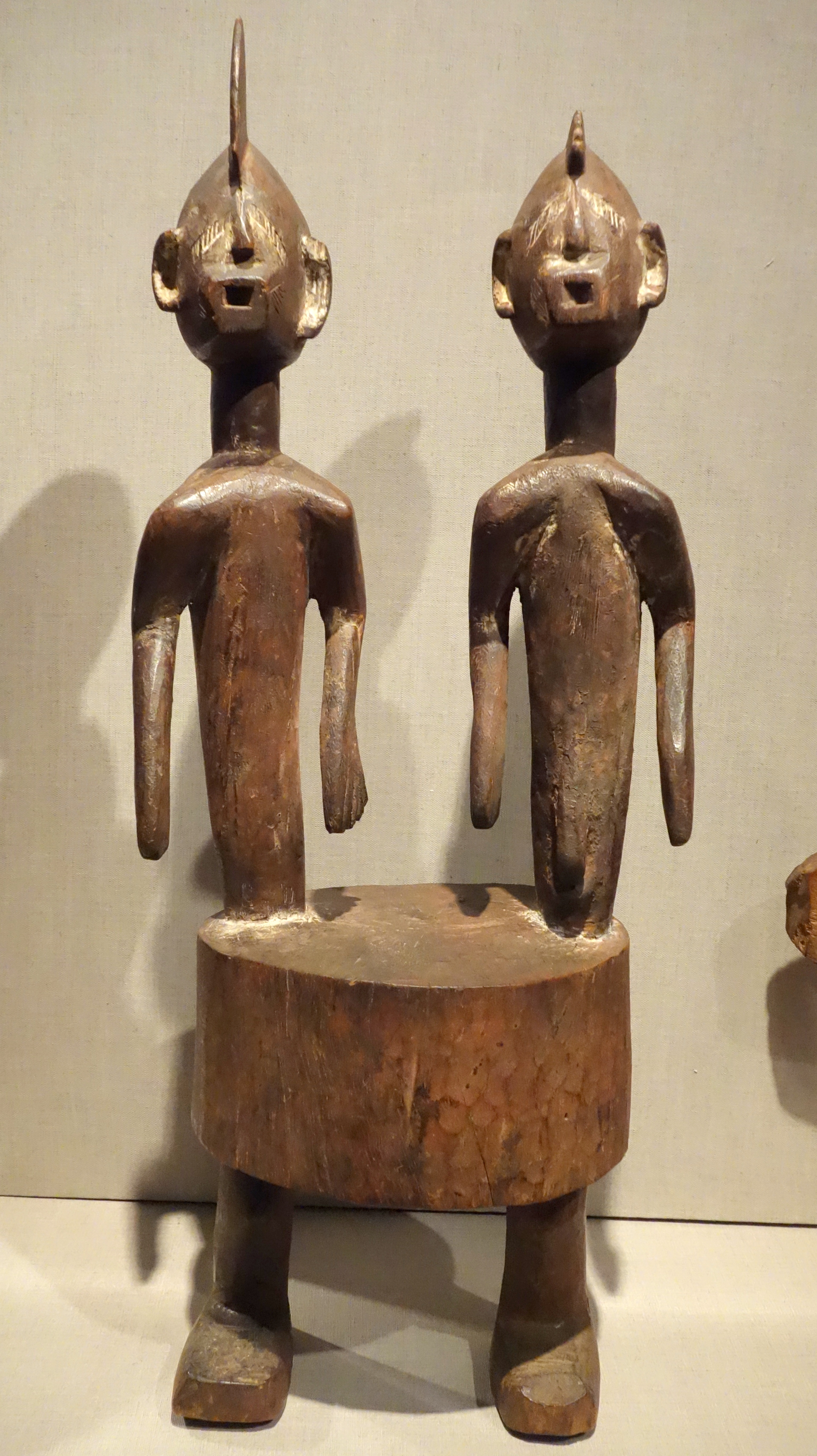 Exhibit in the De Young Museum, San Francisco, California, USA. This artwork is in the public domain because the artist died more than 70 years ago.